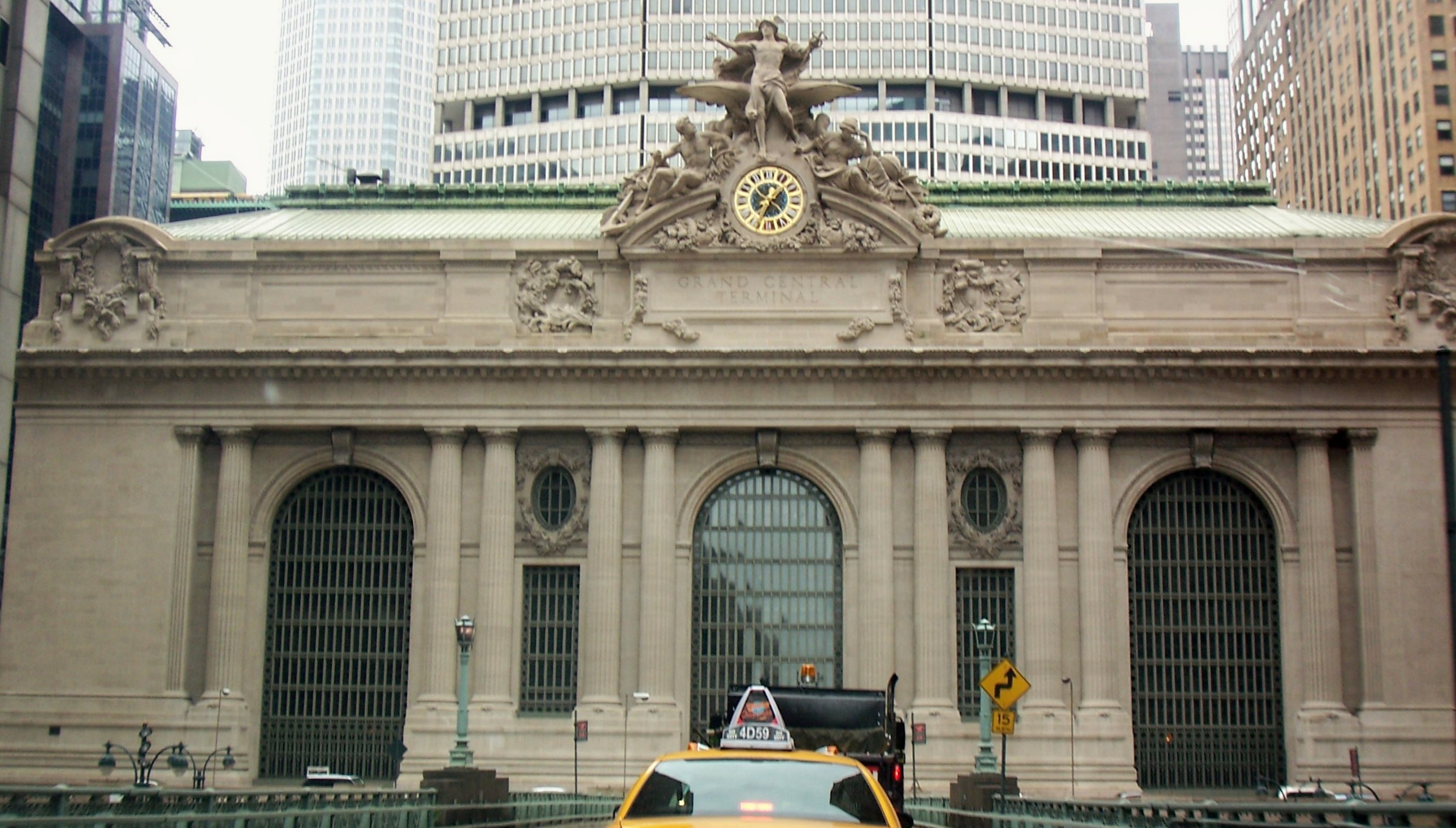 The exterior of Grand Central Station